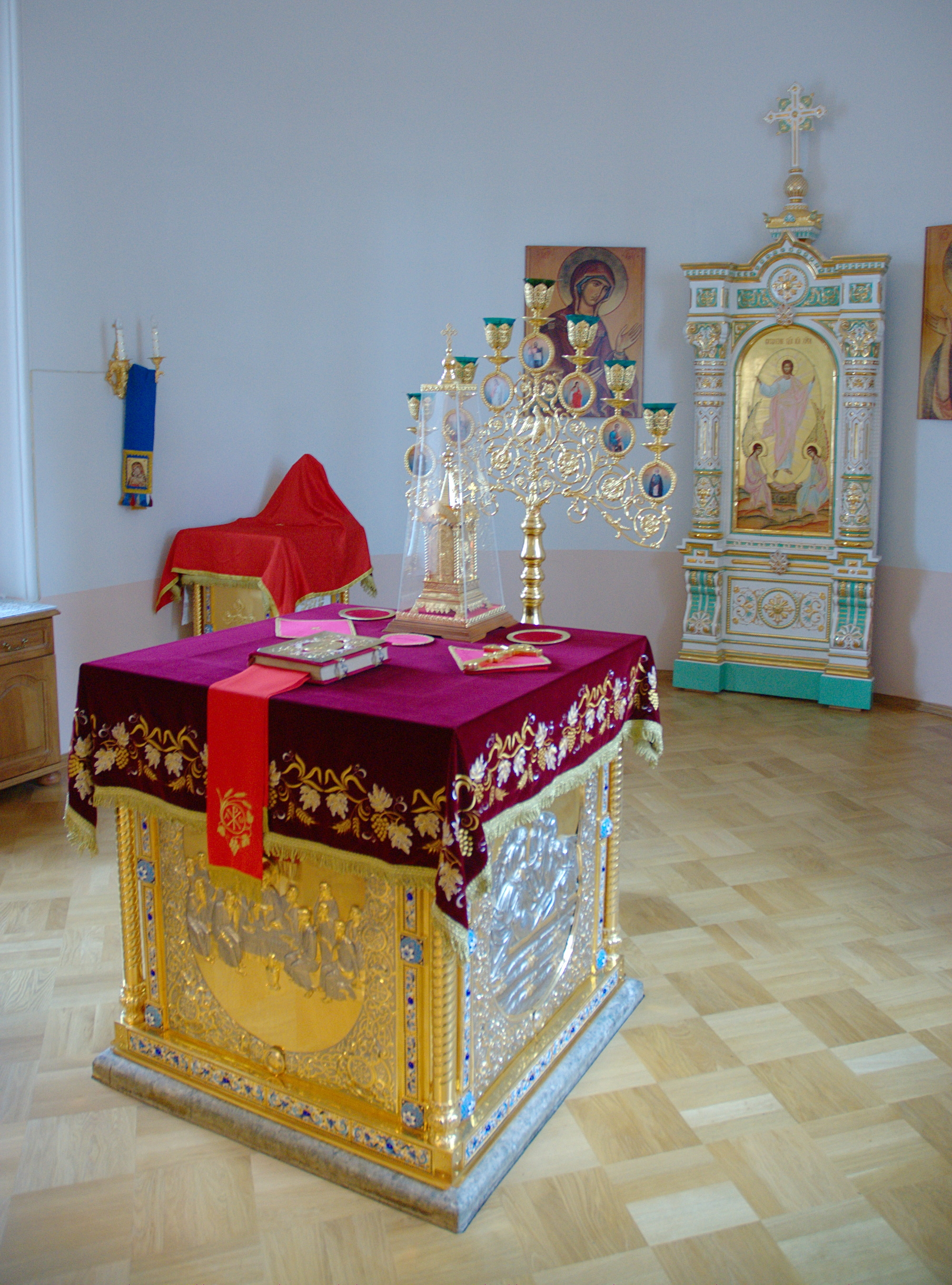 Holy Table (altar). Valaam Monastery, Kareliya.